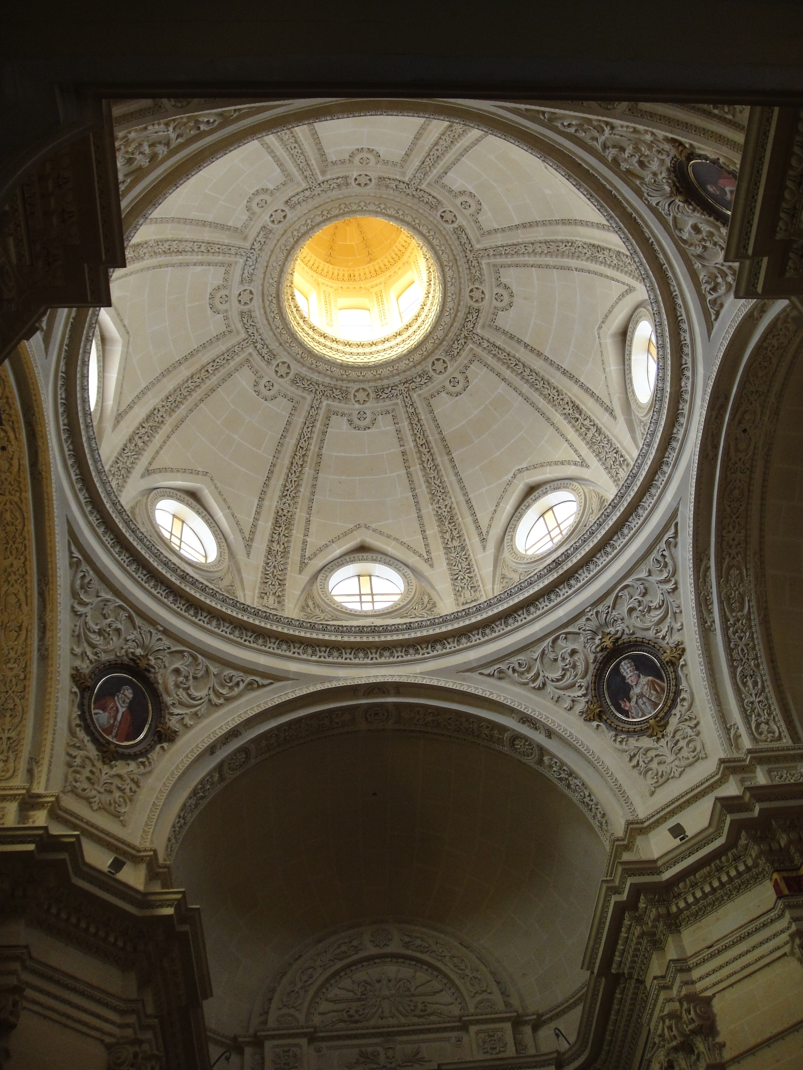 Ceiling of the Church of Our Lady of Pompei.